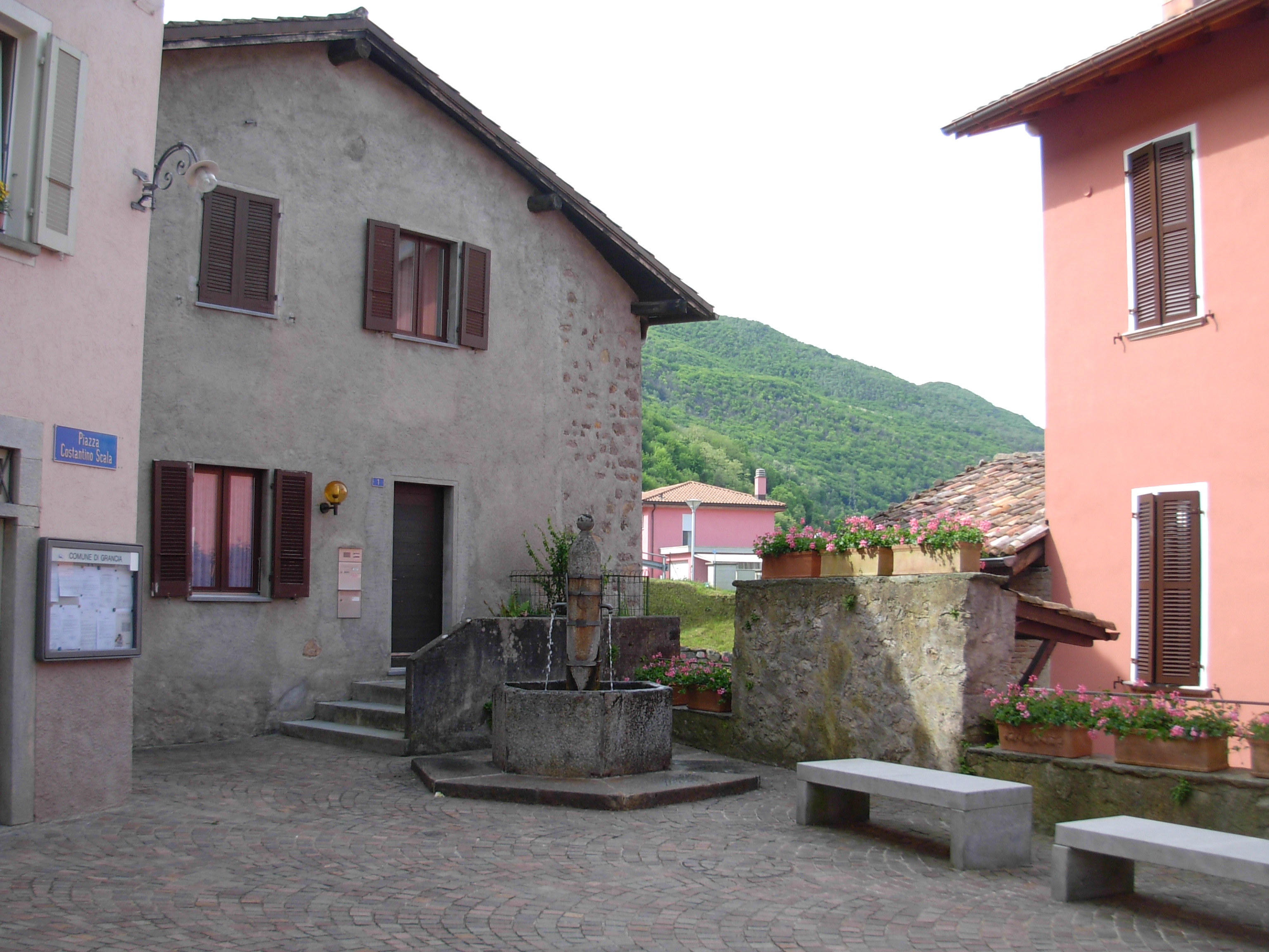 The village Grancia in the Swiss Canton of Ticino